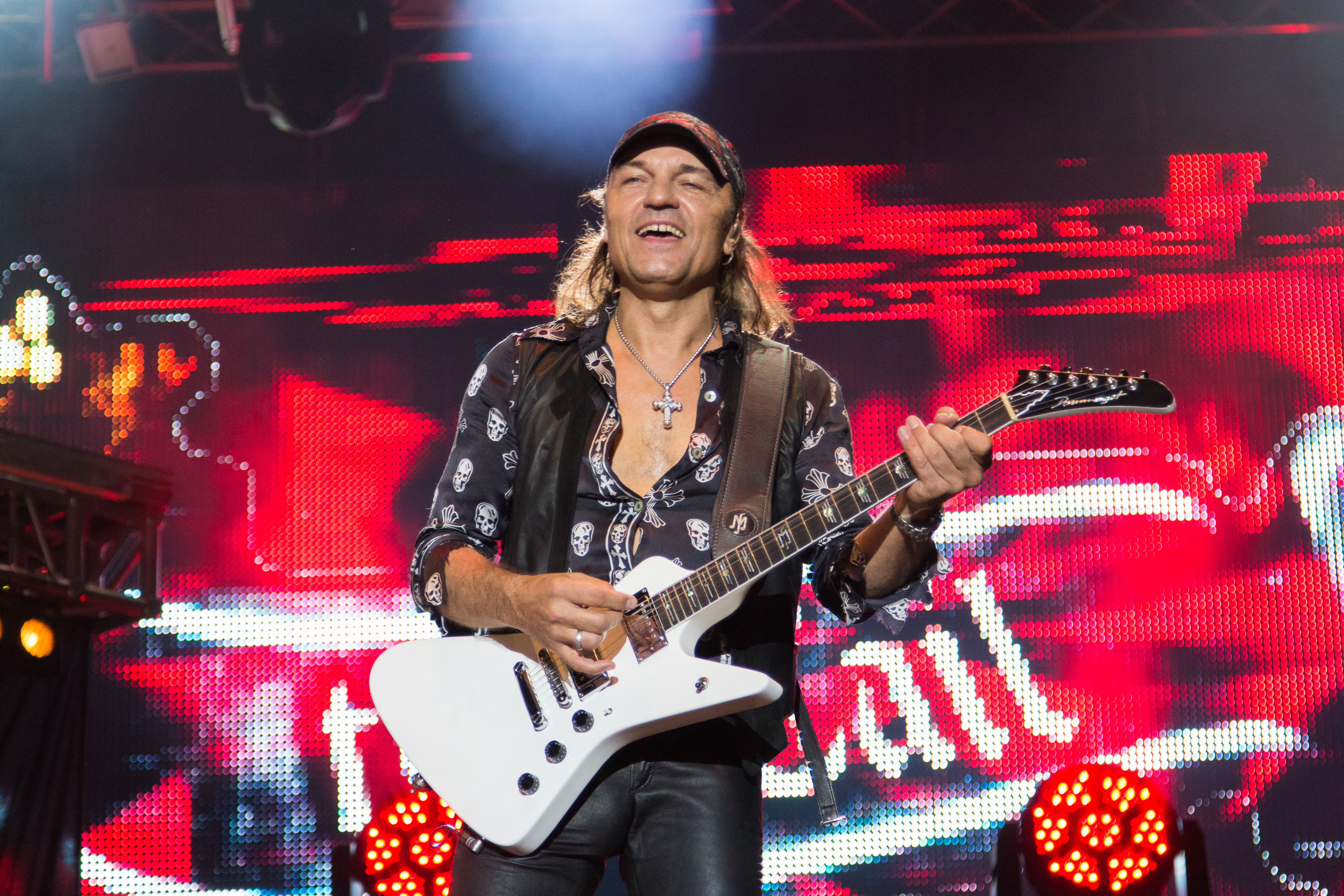 Rudolf Schenker from the Scorpions at the See-Rock Festival 2014